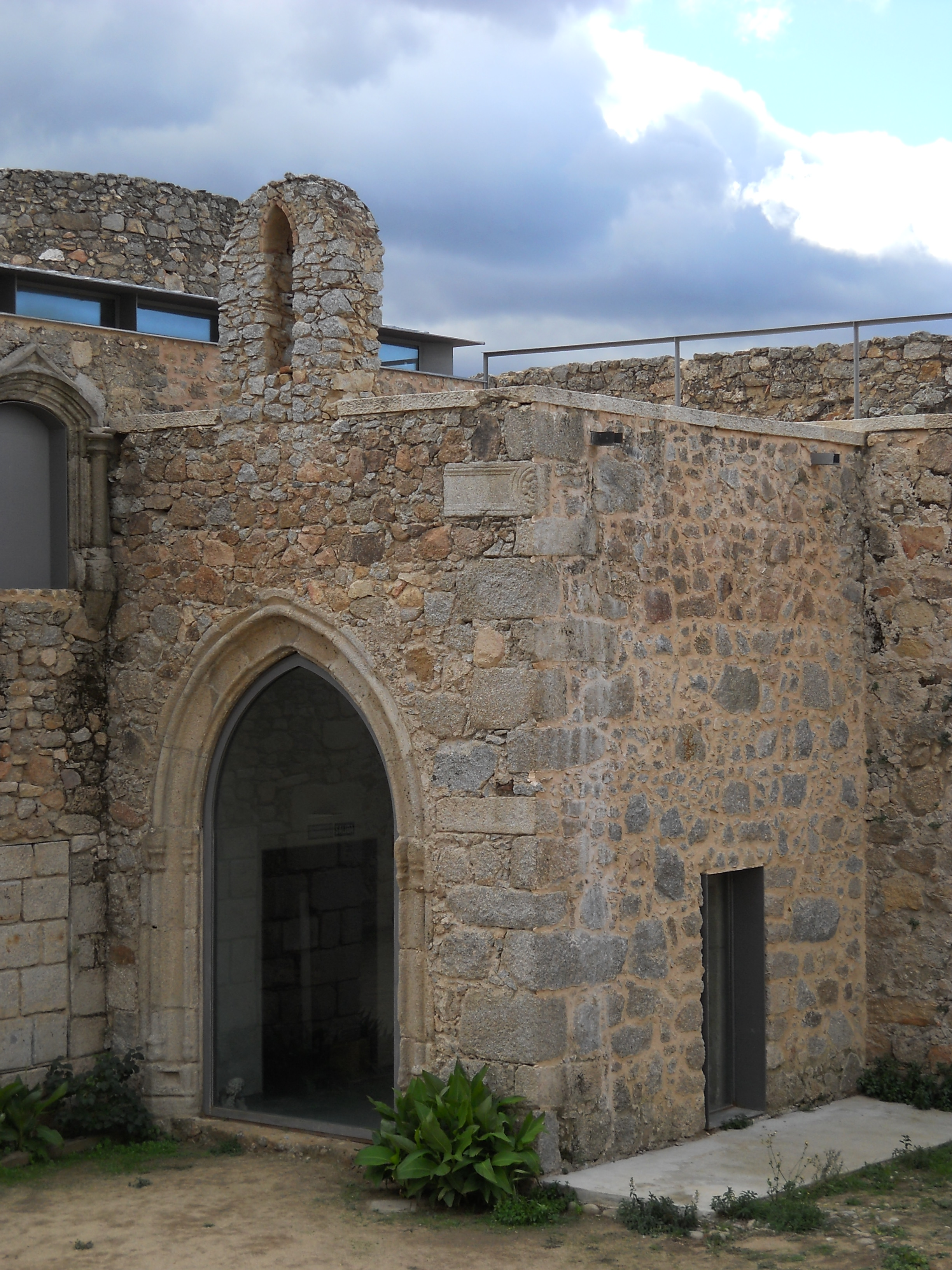 Castle San Martín de Valdeiglesias, Madrid, Spain, keep